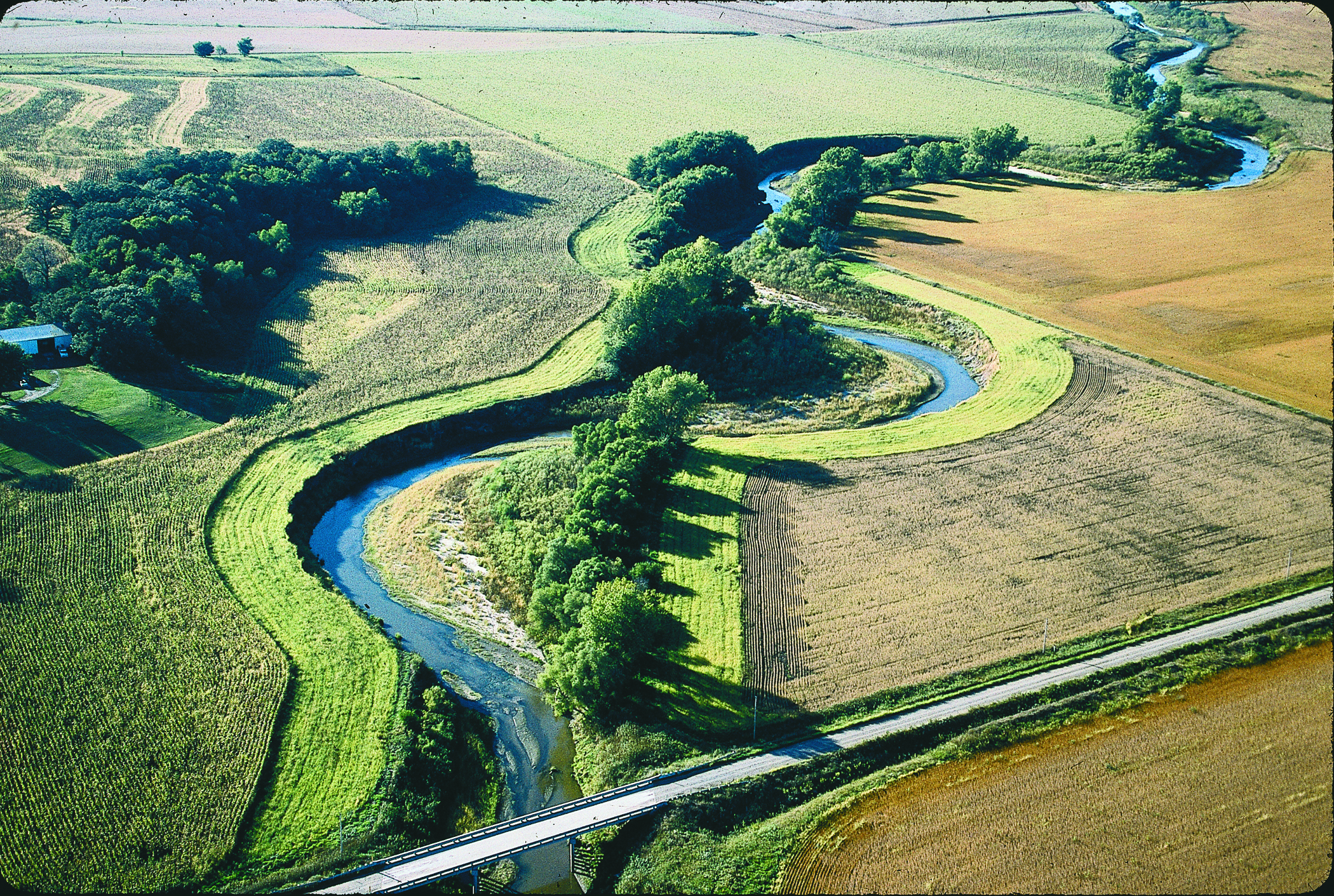 Filter strip along a stream in western Iowa.